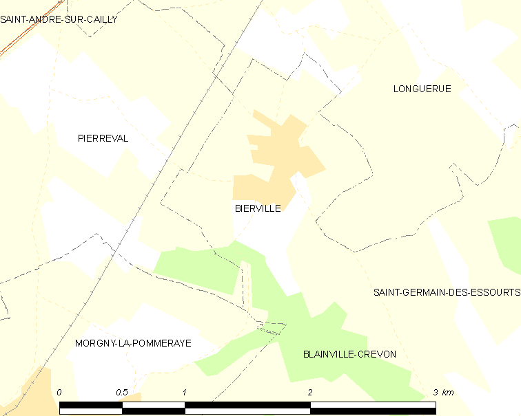 Map of French municipality Bierville